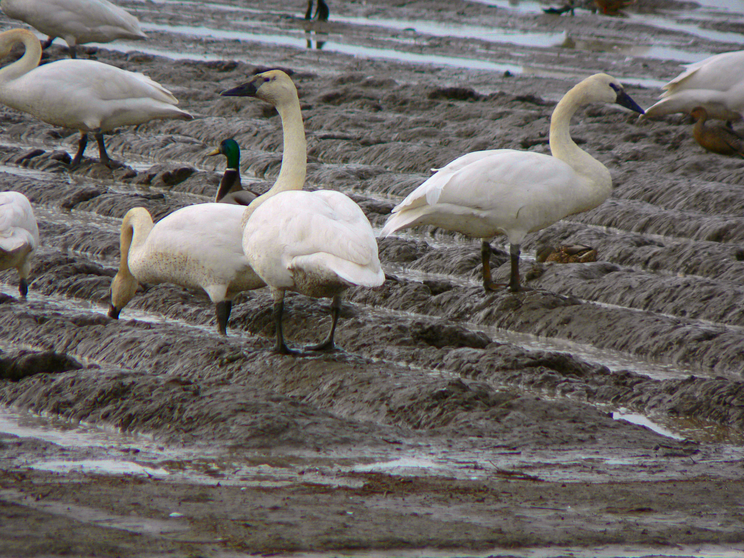 Trumpeter Swans and Mallard (partially obscured)